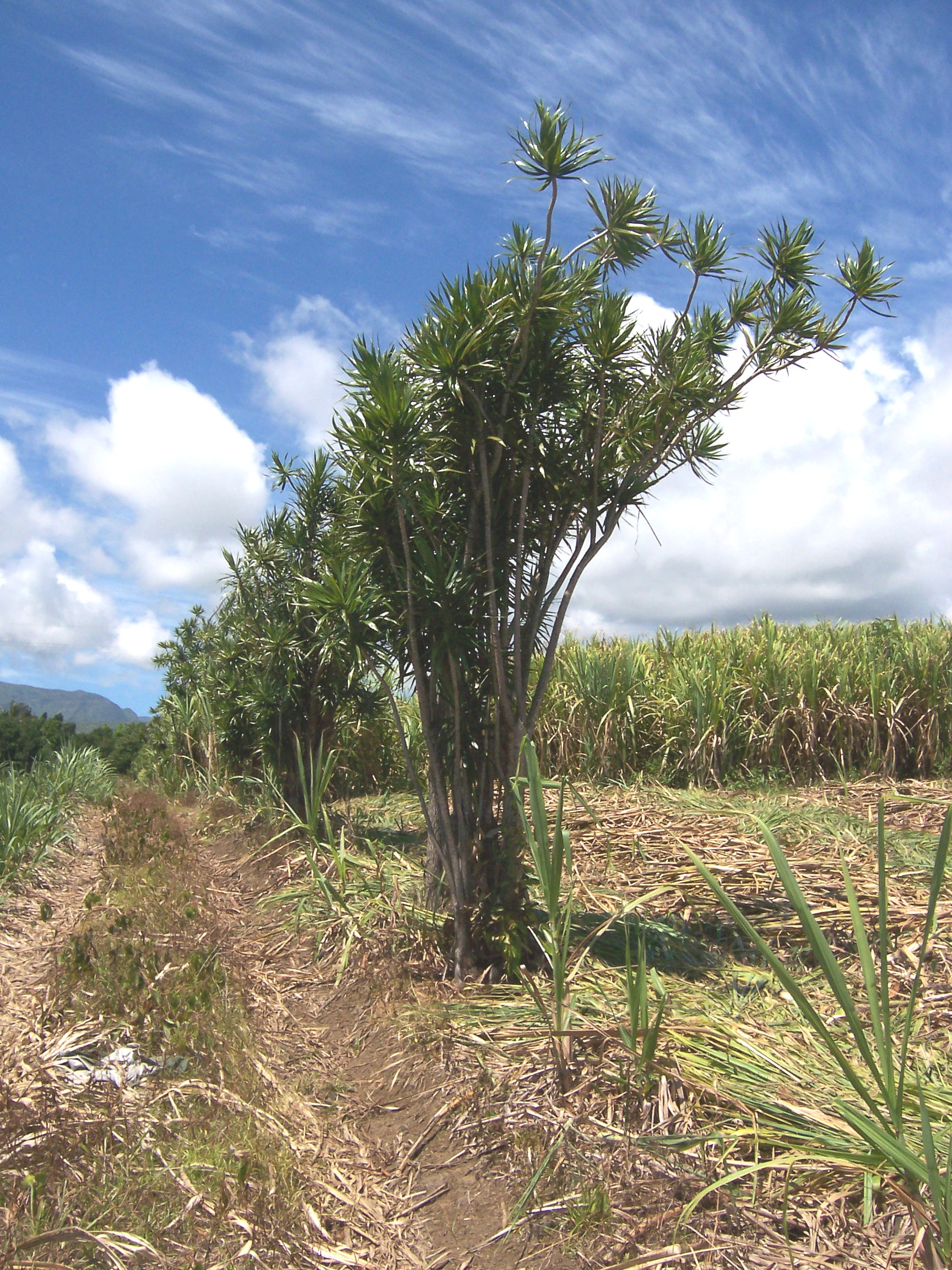 Dracaena reflexa traditionally planted for making boundary lines between properties in the sugar cane fields of Réunion island (here near Saint-Benoît). These plants have been pulled up in january 2008 for the field to be smoothed away.